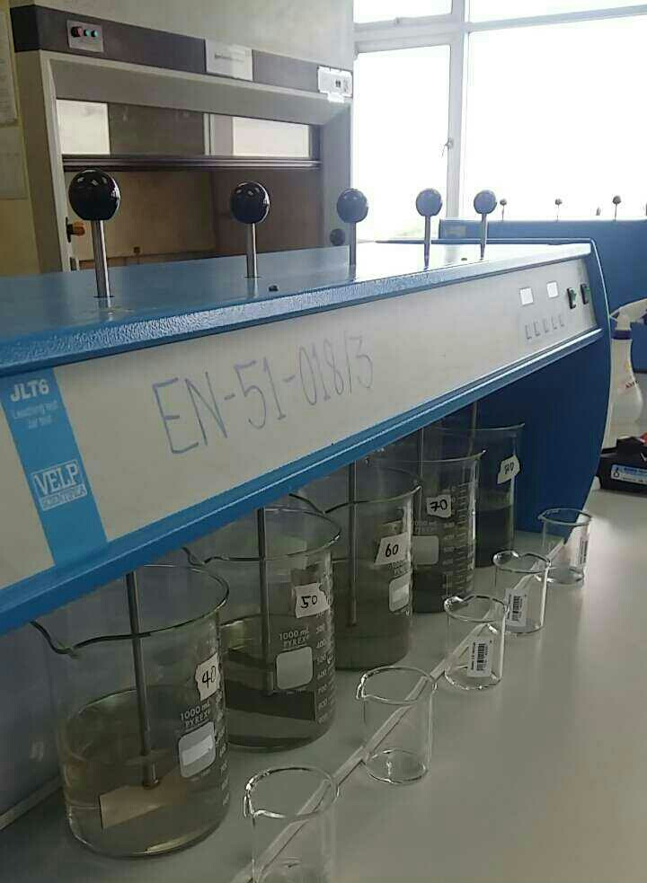 A jar test is being conducted for selecting the best dose of coagulant for water treatment